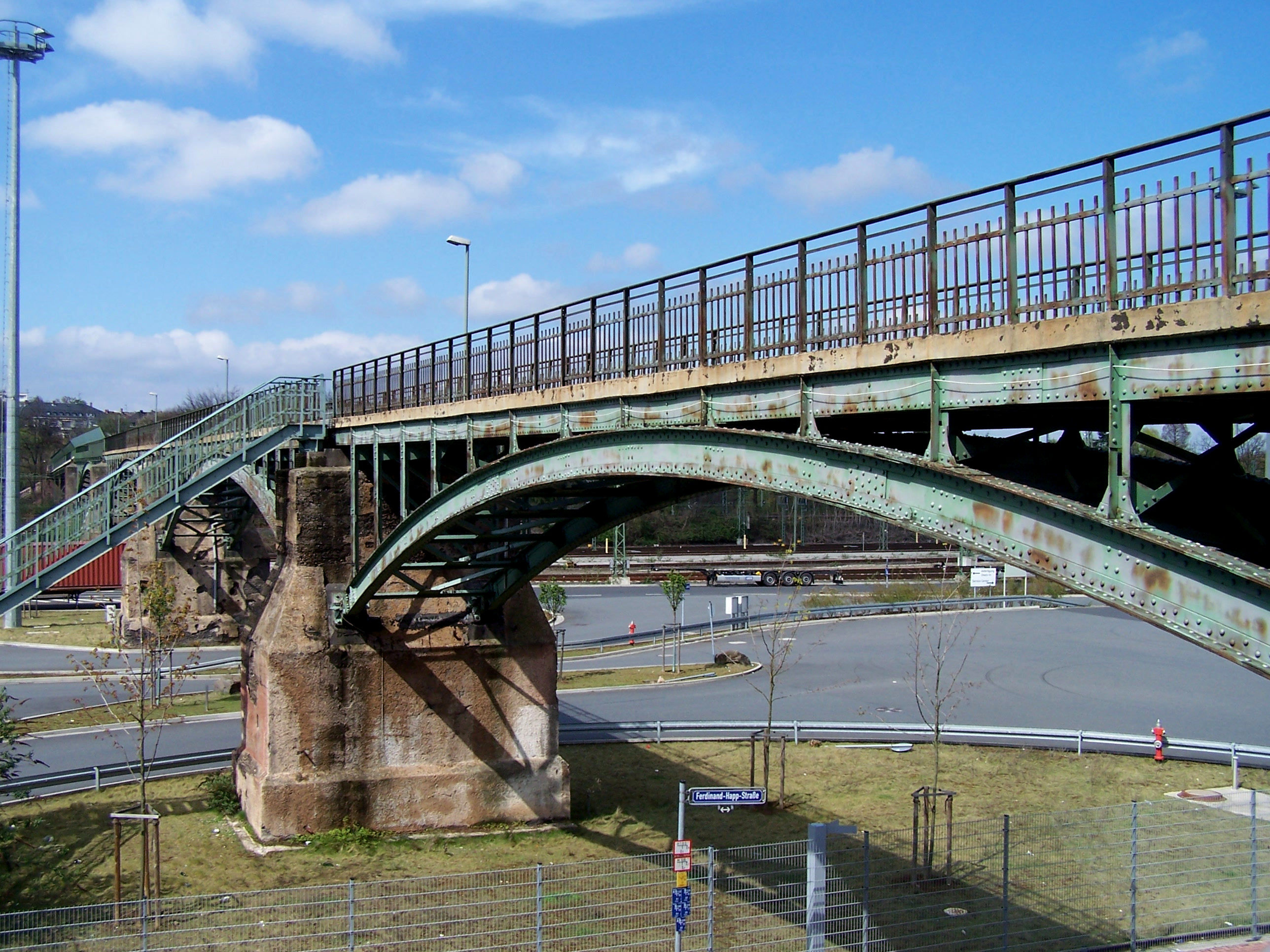 Schwedler bridge in Frankfurt-Ostend